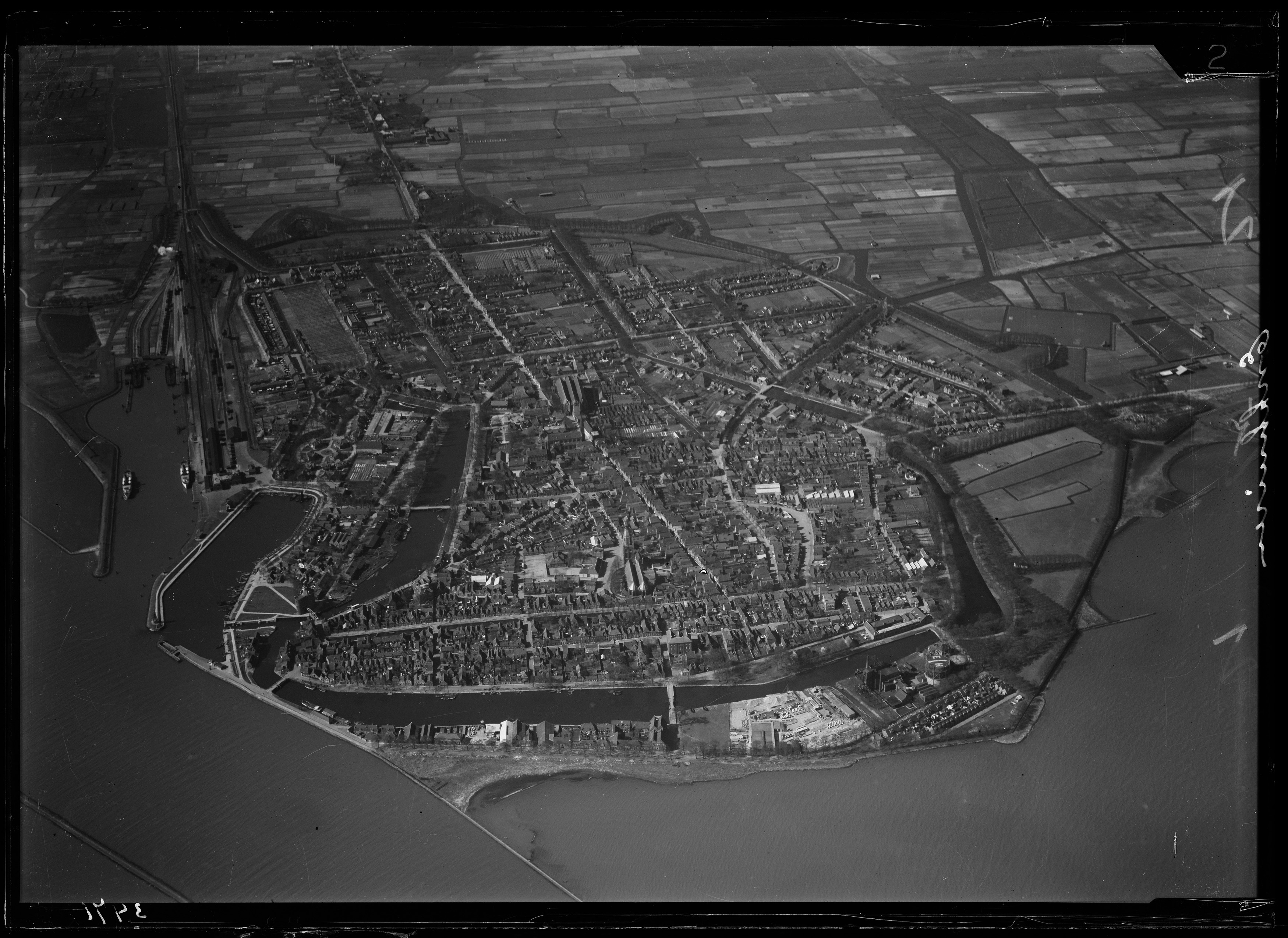 Aerial photograph of Enkhuizen, The Netherlands